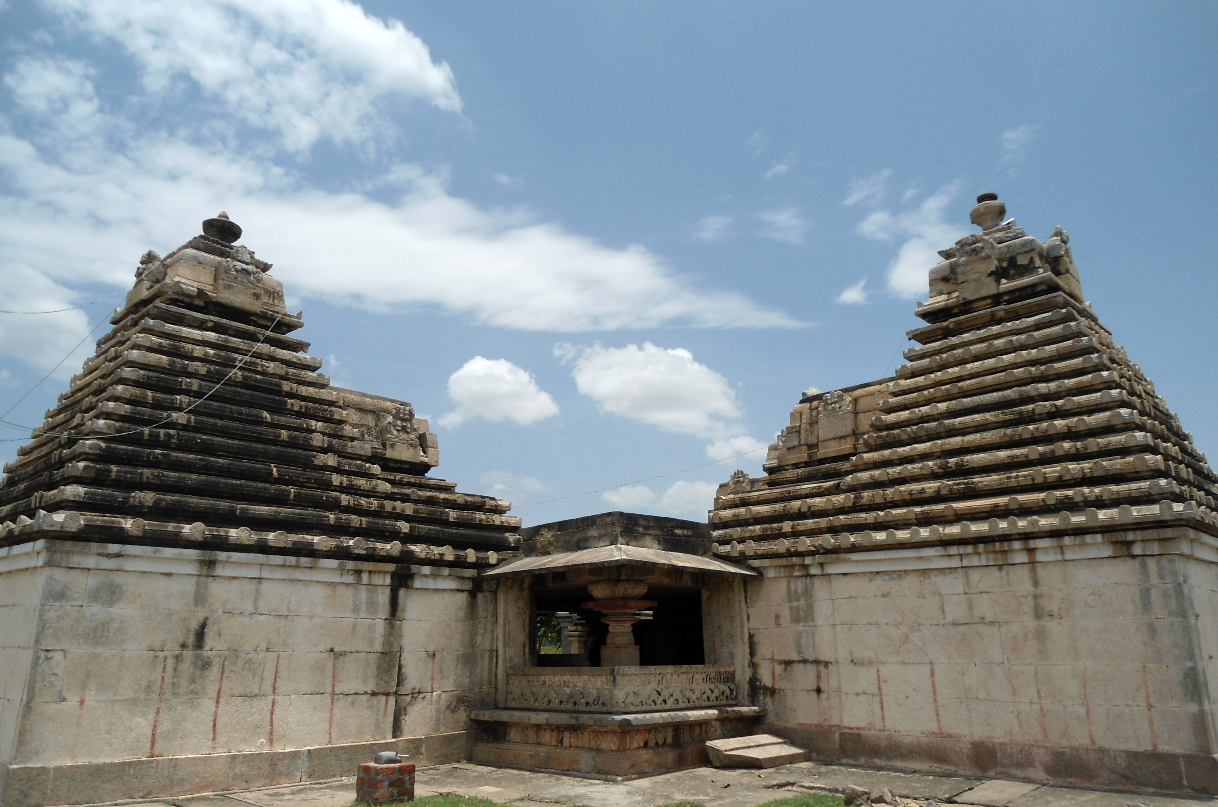 Sri Chaya Someswara Temple at Pangal, Nalgonda District, Andhra Pradesh